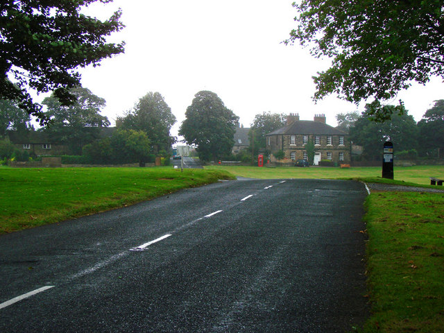 Kirkthorpe Lane, Heath